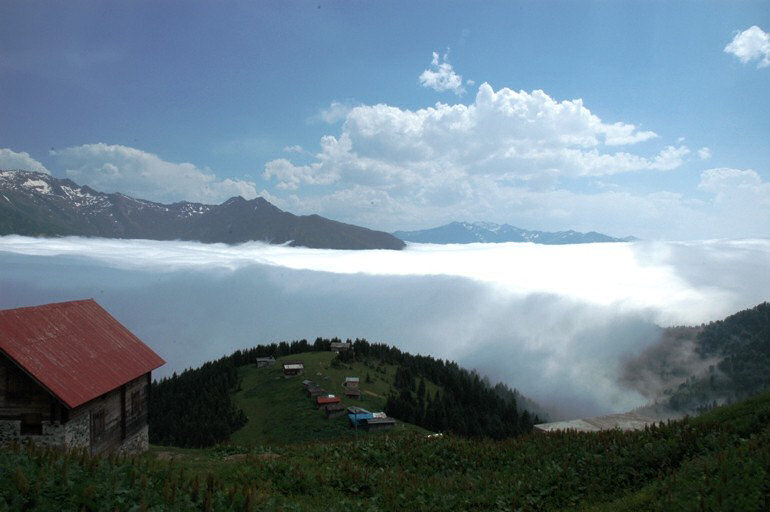 Mountains and yaylas of Rize on Turkey's Black Sea coast